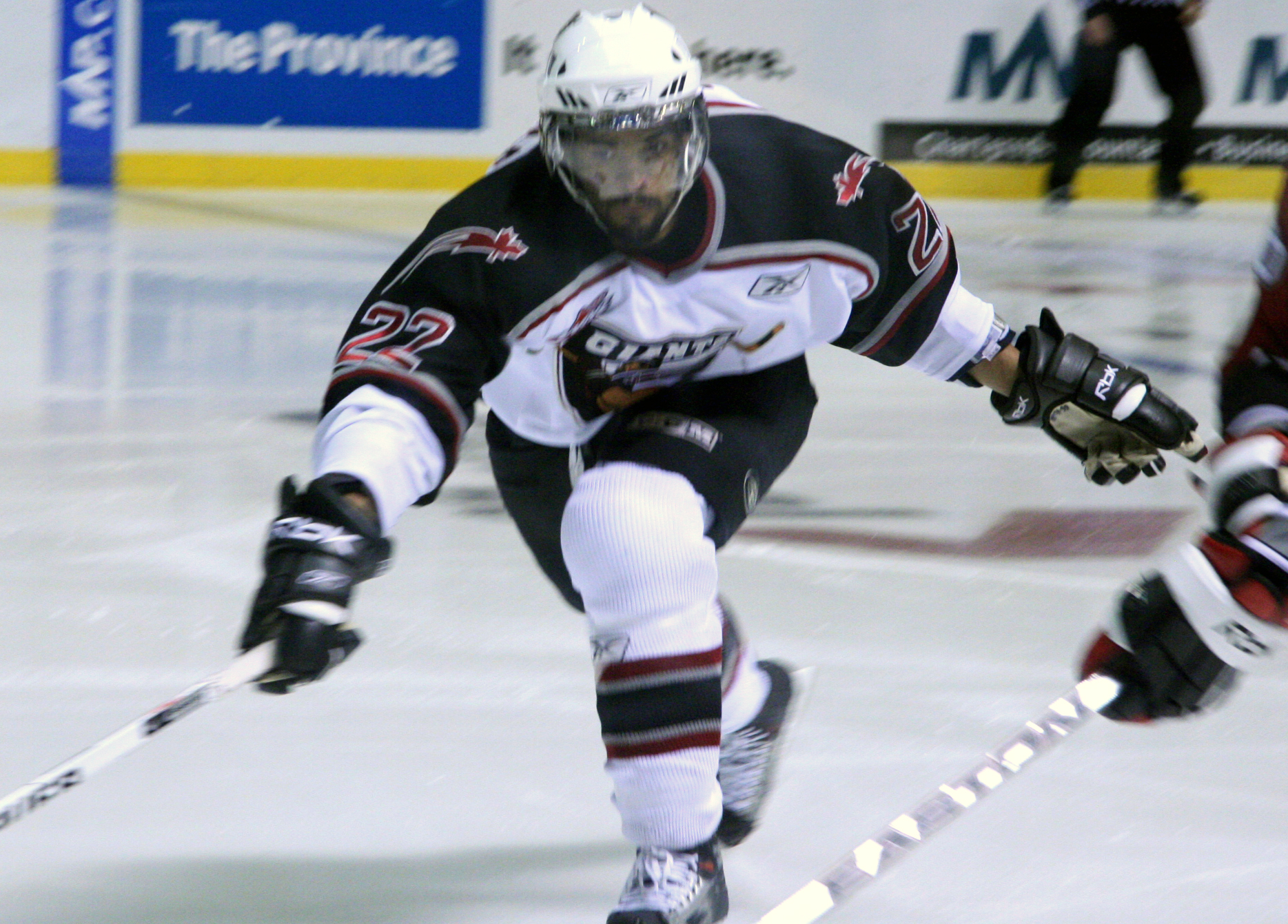 Kenndal McArdle with the Vancouver Giants in April 2007.